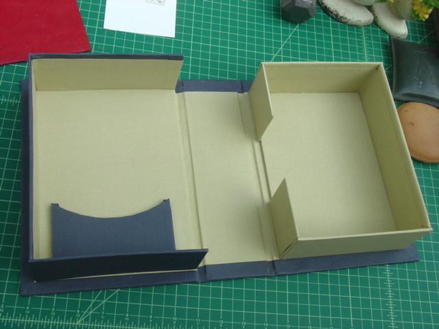 customer requested pocket, blue buckram covers - a Solander Box